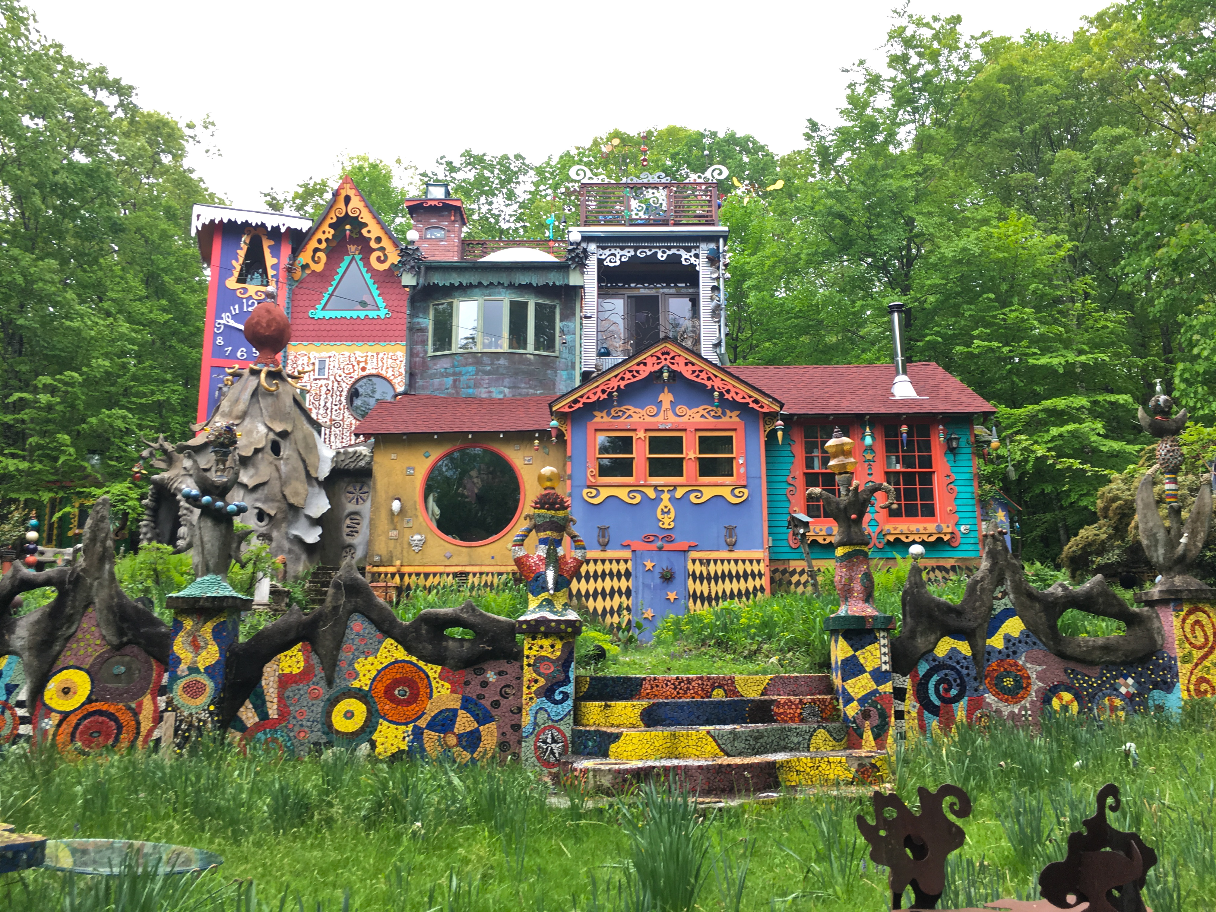 Built by Ricky Boscarino since 1989, the main house is constructed of a variety of material including, wood, metal, glass and concrete